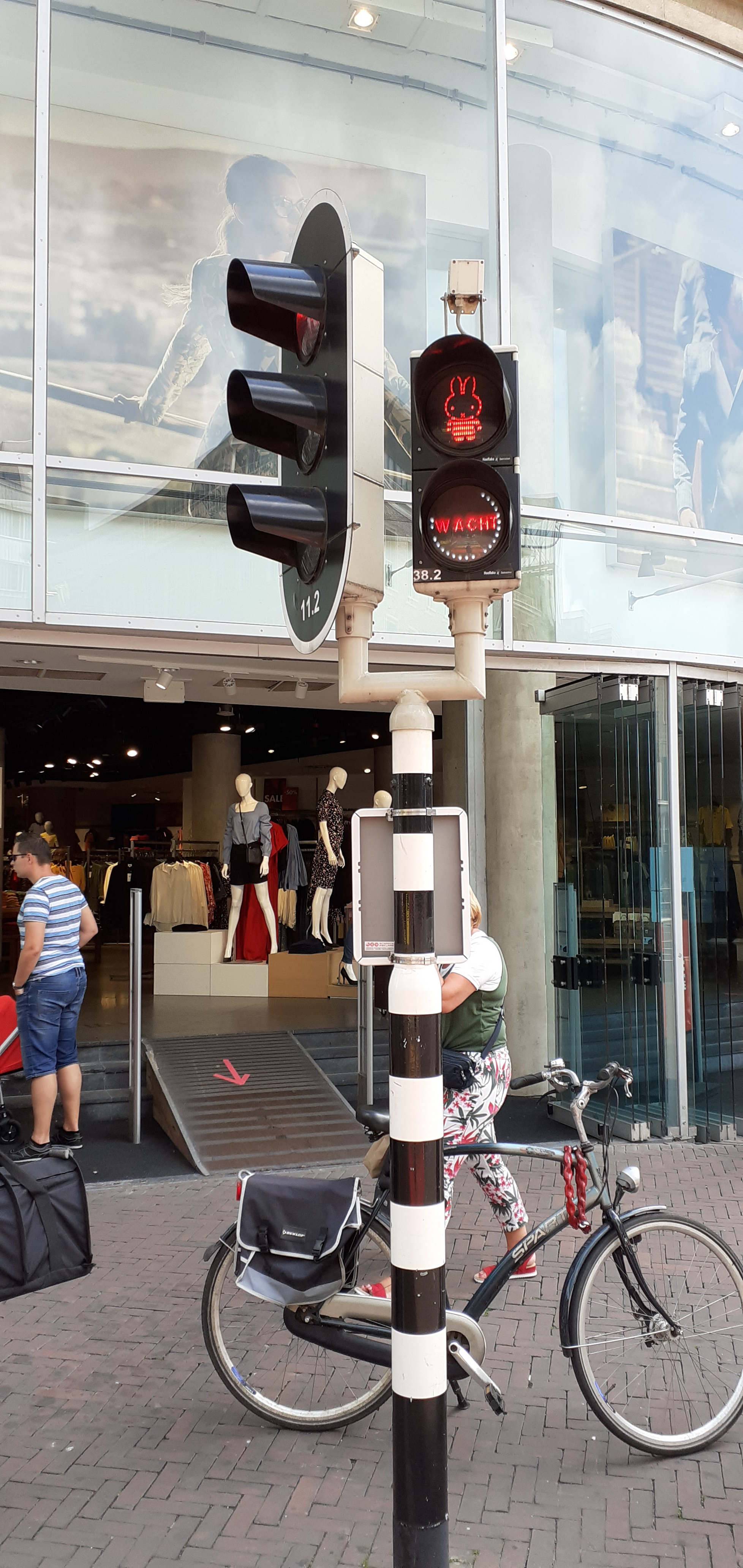 Stoplight in Utrecht, Netherlands, with Miffy and white LED as countdown to green